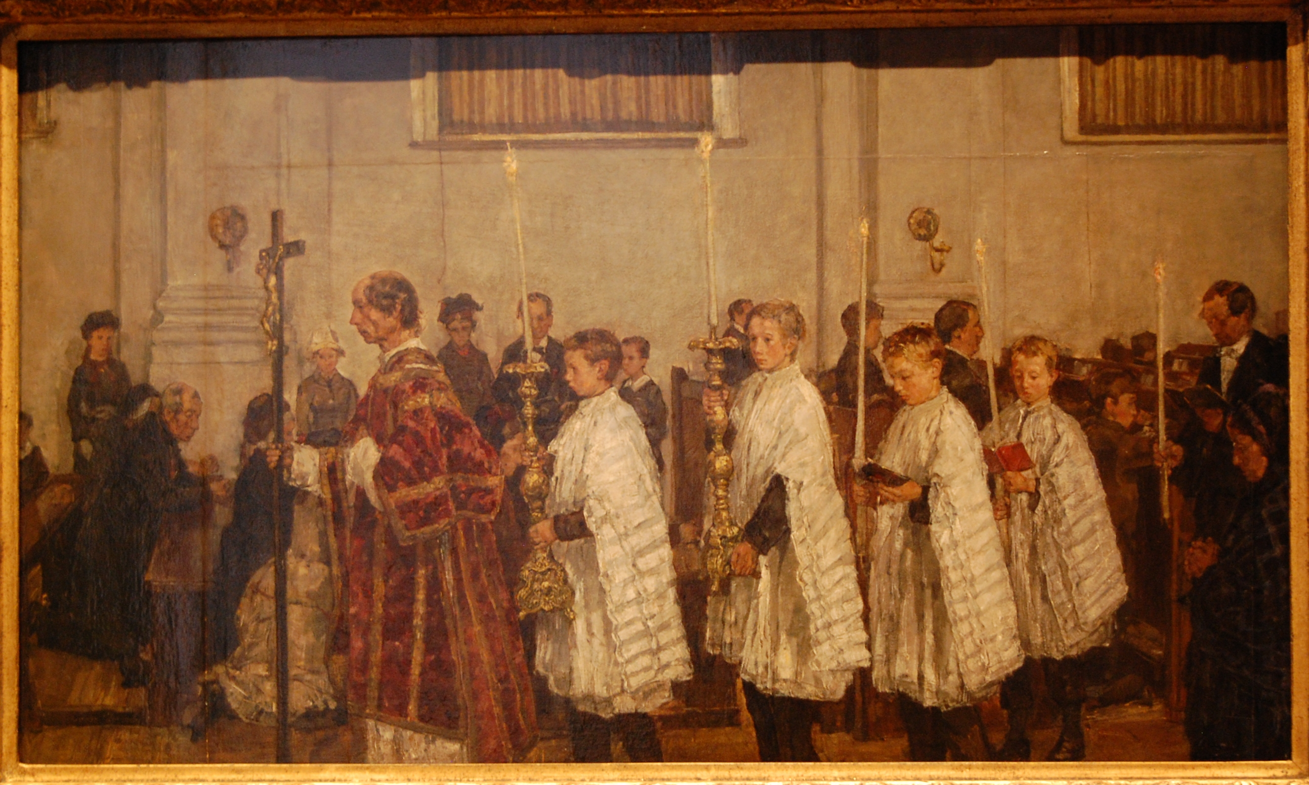 Procession old-caltholic church by Isaac Israels 1881